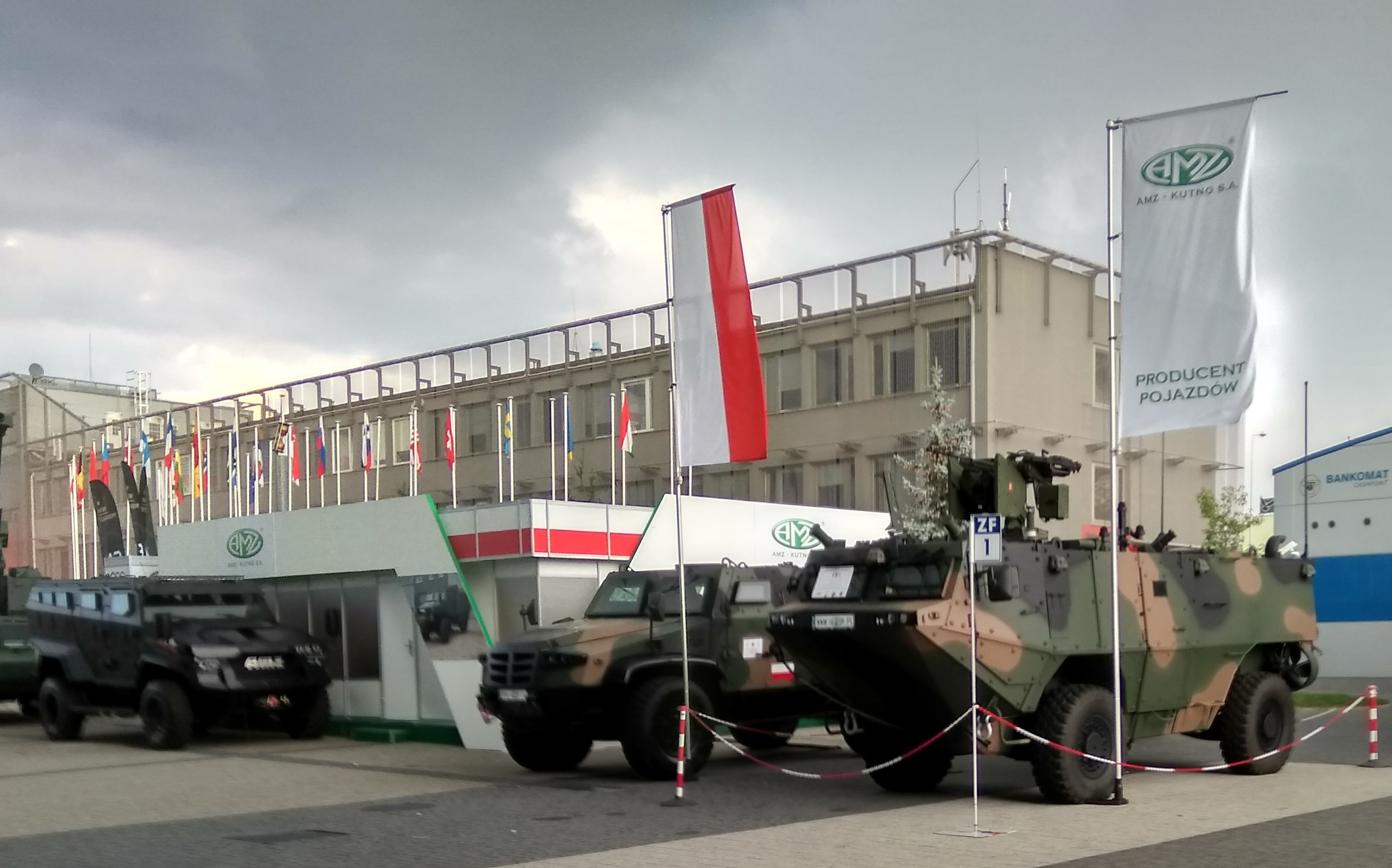 AMZ Kutno military vehicles